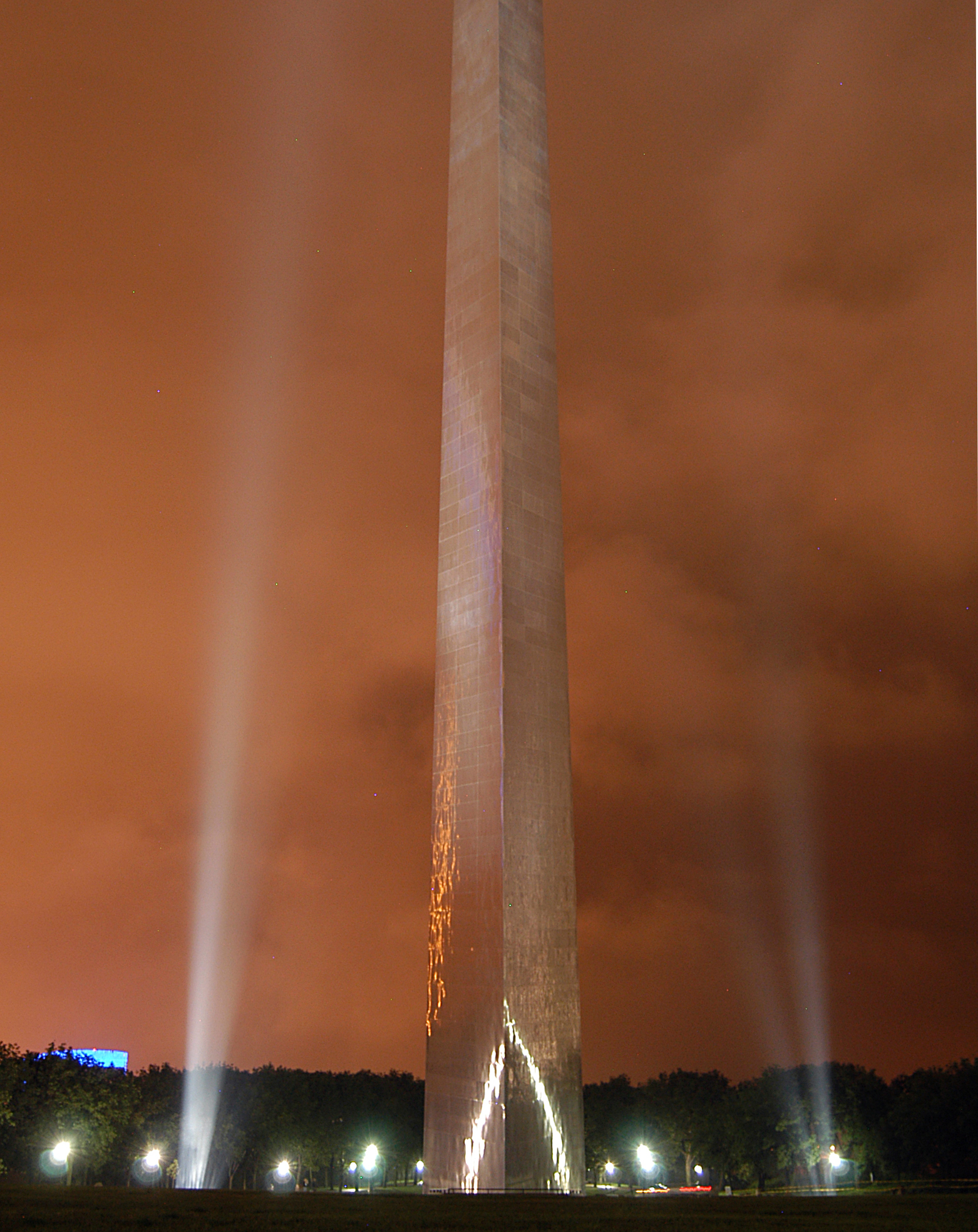 We went to see the arch after checking in last night. Pretty cool in the dark.